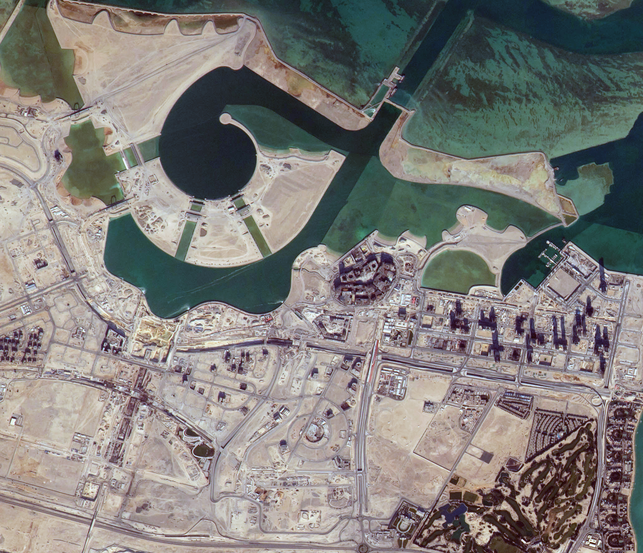 NASA astronaut Tim Kopra tweeted this image with the comment: "#Doha #Bahrain -- manmade #EarthArt"